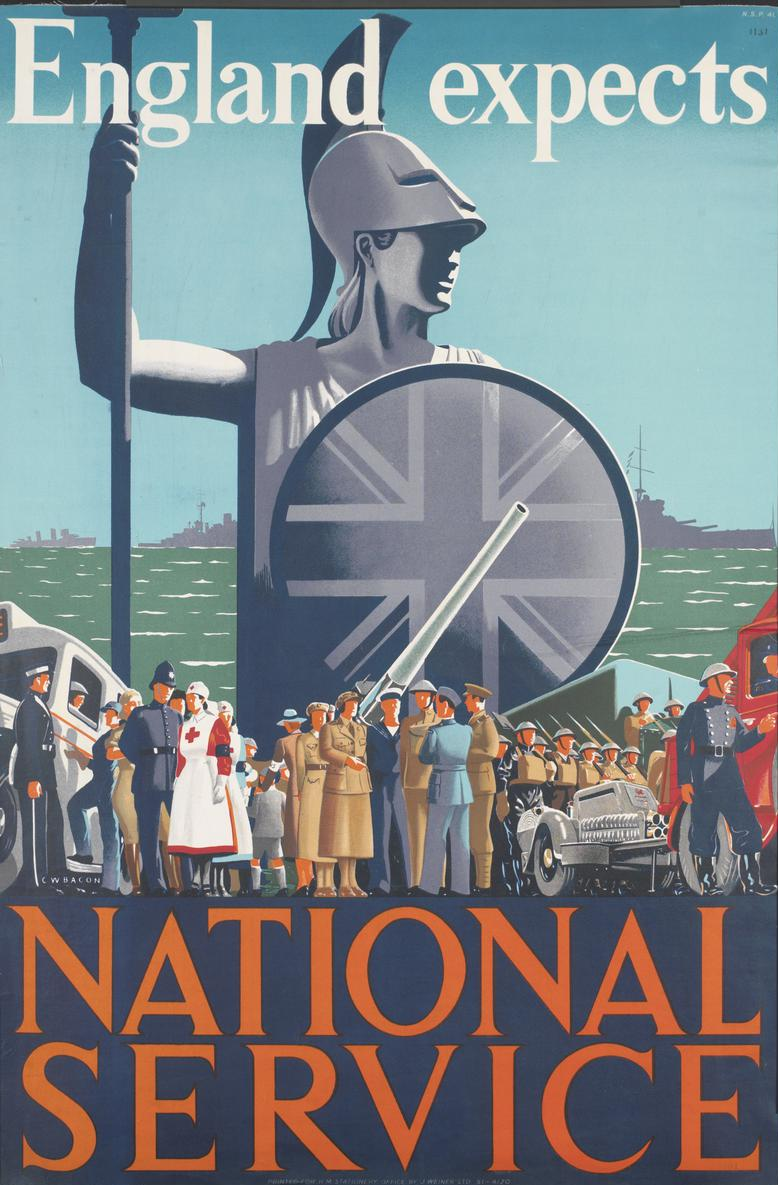 England Expects - National Service whole: the image is positioned in the upper two-thirds. The title is integrated and placed along the top edge, in white. The text is separate and placed in the lower third, in orange, set against a blue background. image: a half-length depiction of an oversize Britannia, rising from the midst of a group of various male and female representatives of the Armed Forces and Emergency Services, as well as several children. Motor vehicles and an artillery gun are placed amongst the group. A seascape with ships sailing on the horizon is visible in the background. text: N.S.P. 41. England expects C W BACON NATIONAL SERVICE PRINTED FOR H.M. STATIONERY OFFICE BY J. WEINER LTD 51 - 4120